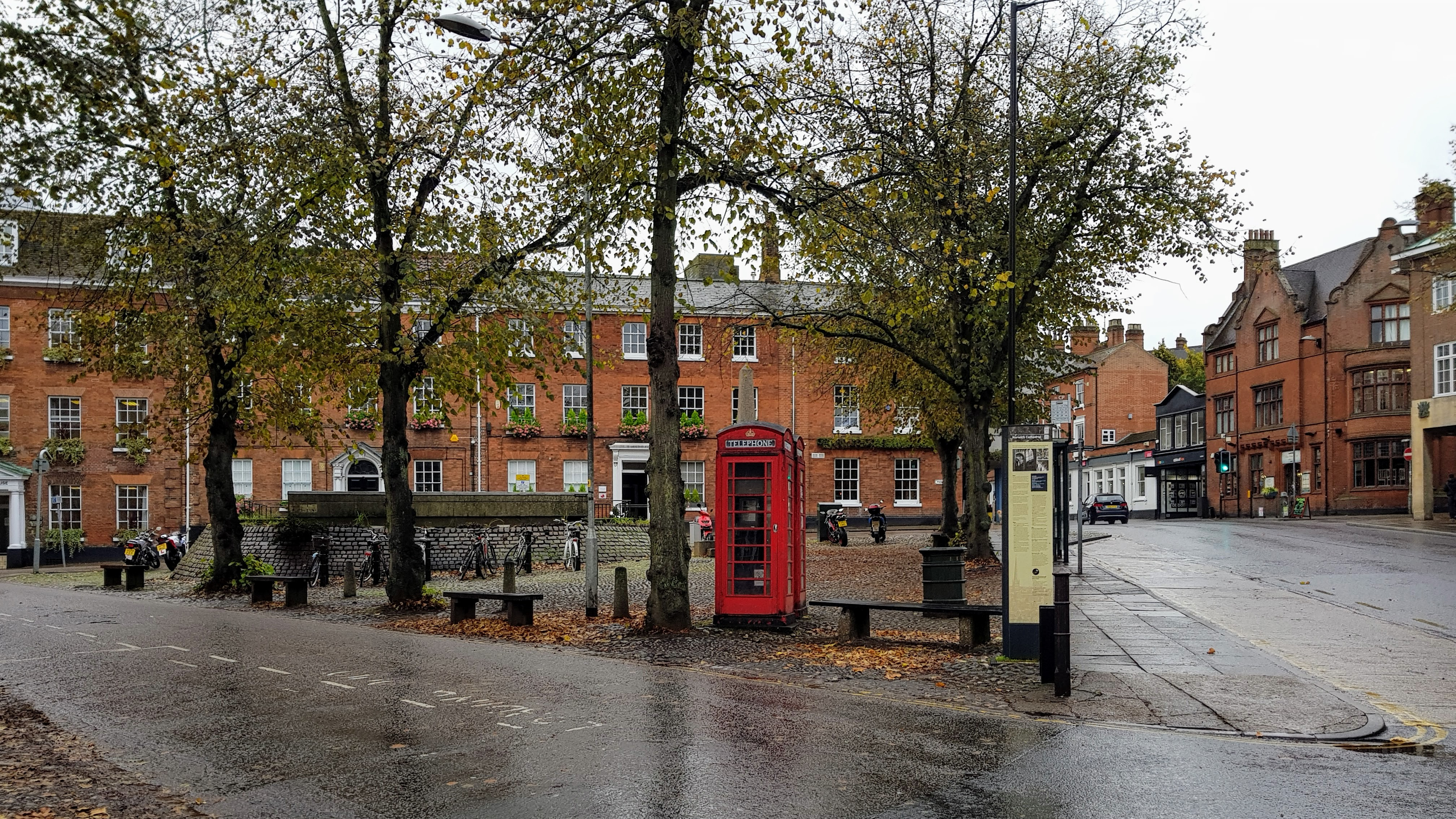 Tombland, Norwich; view south from opposite the Edith Cavell